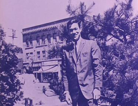 Bruce lee in 1959 in America.